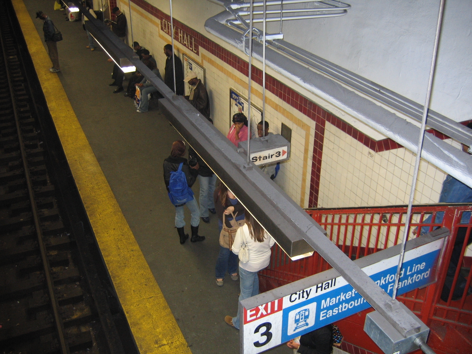 City Hall station on the SEPTA Broad Street Line in Philadelphia